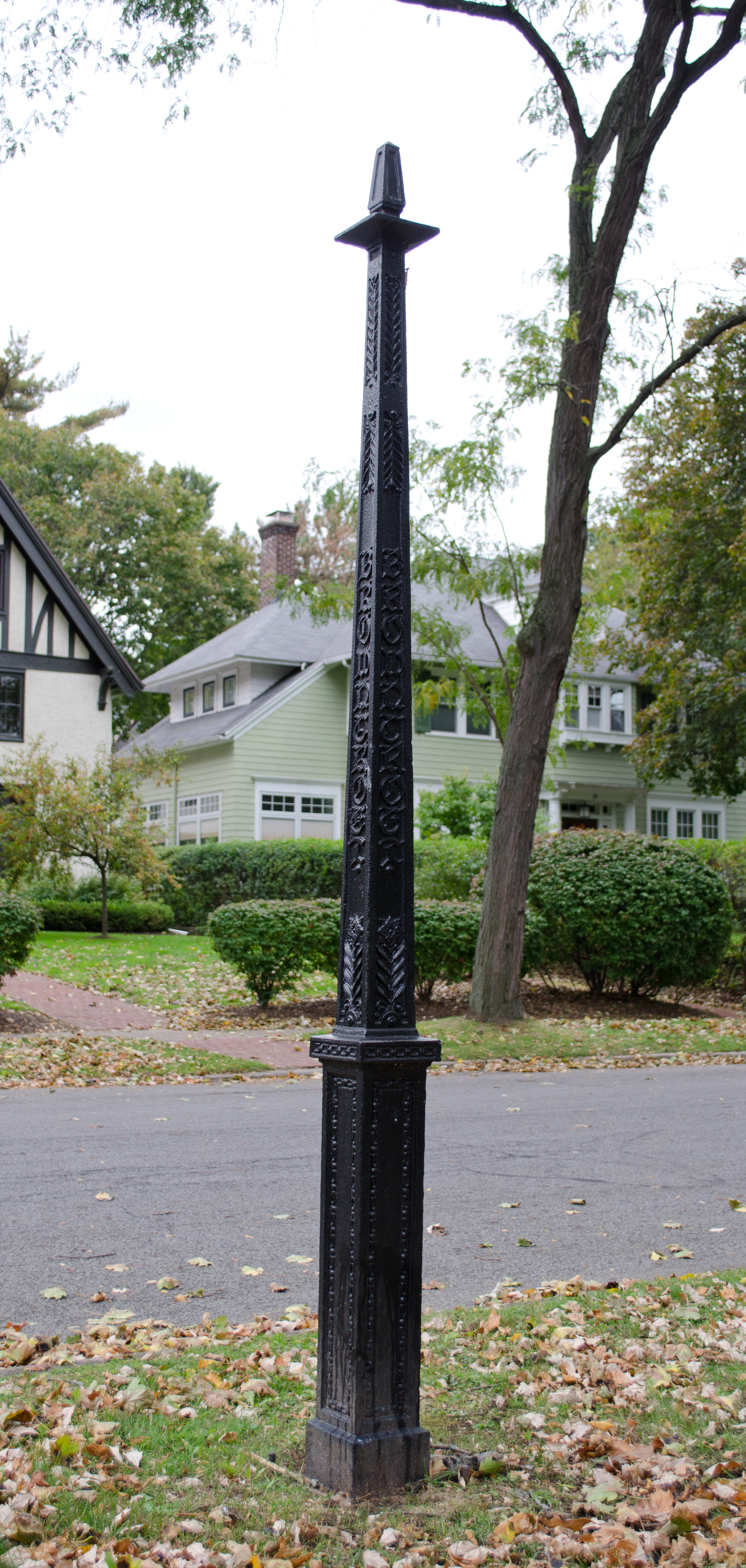 A wrought iron signpost at the corner of Ramsey Park and Corwin Road in the Browncroft Historic District of Rochester, New York.